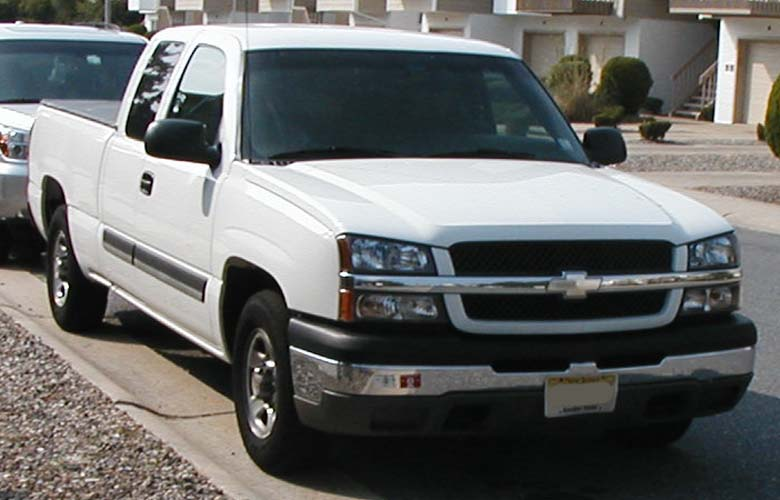 2003-2006 Chevrolet Silverado extended cab photographed in USA.